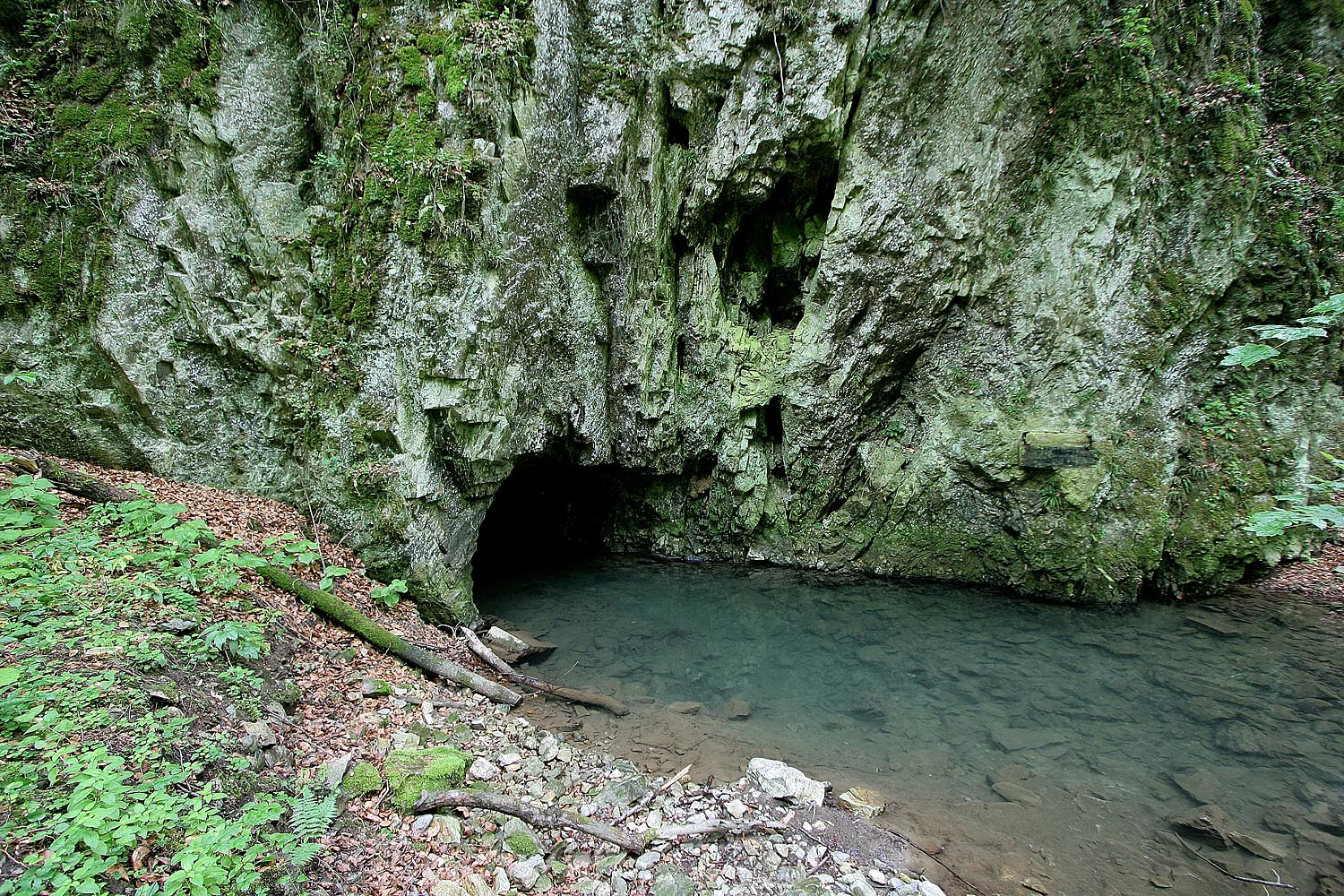 Karst spring of river Punkva in the Moravian Karst near Blansko, Czech Republic